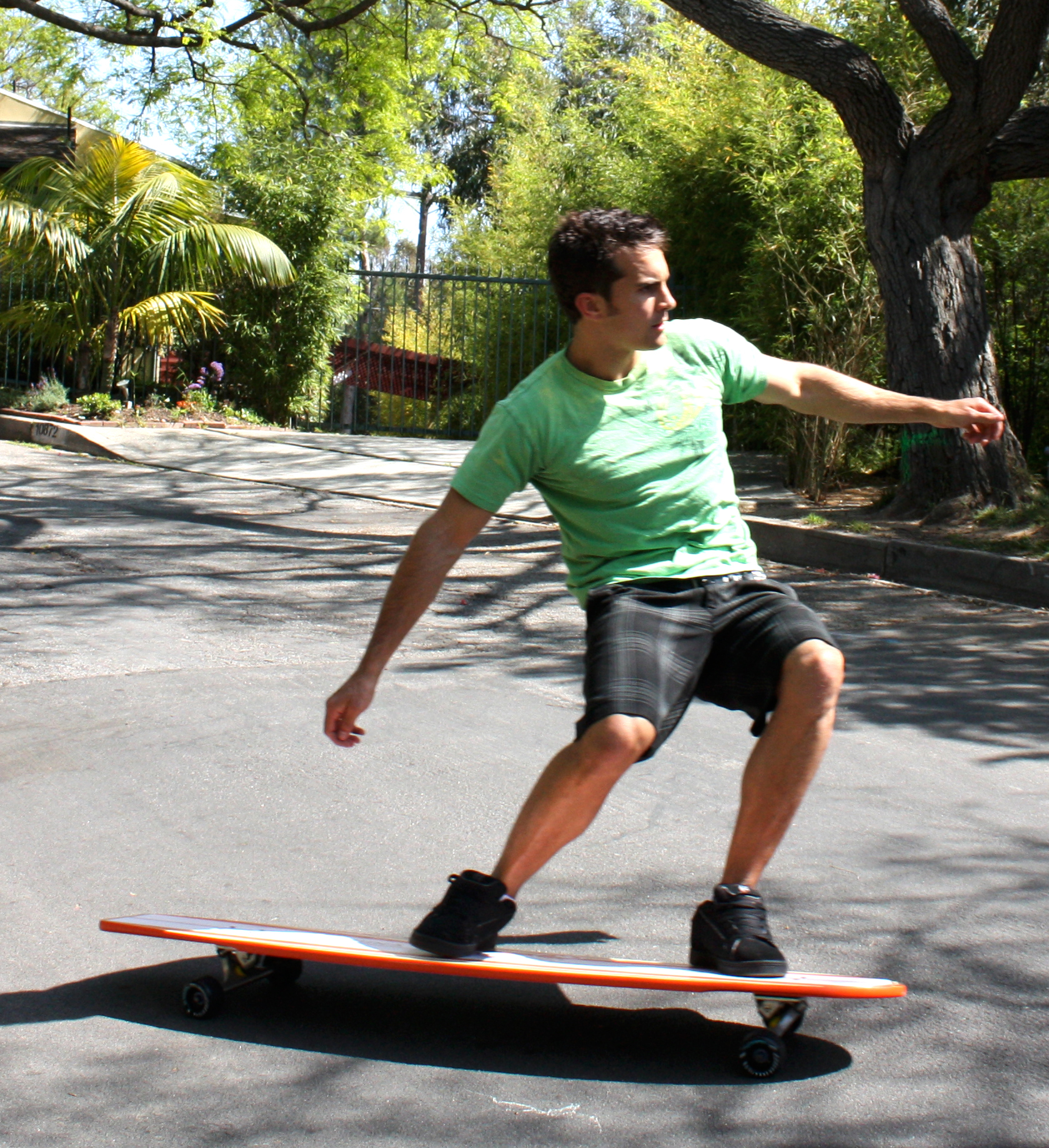 Longboarding (longboard skateboarding) down a hill.